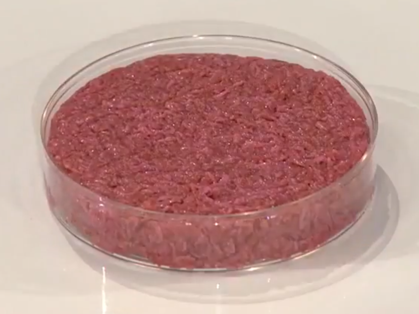 Presentation of the world's first cultured hamburger (yet unbaked here) at a news conference in London on 5 August 2013. The cultured meat product was developed by a team of scientists from Maastricht University led by Mark Post at a cost of €250,000.